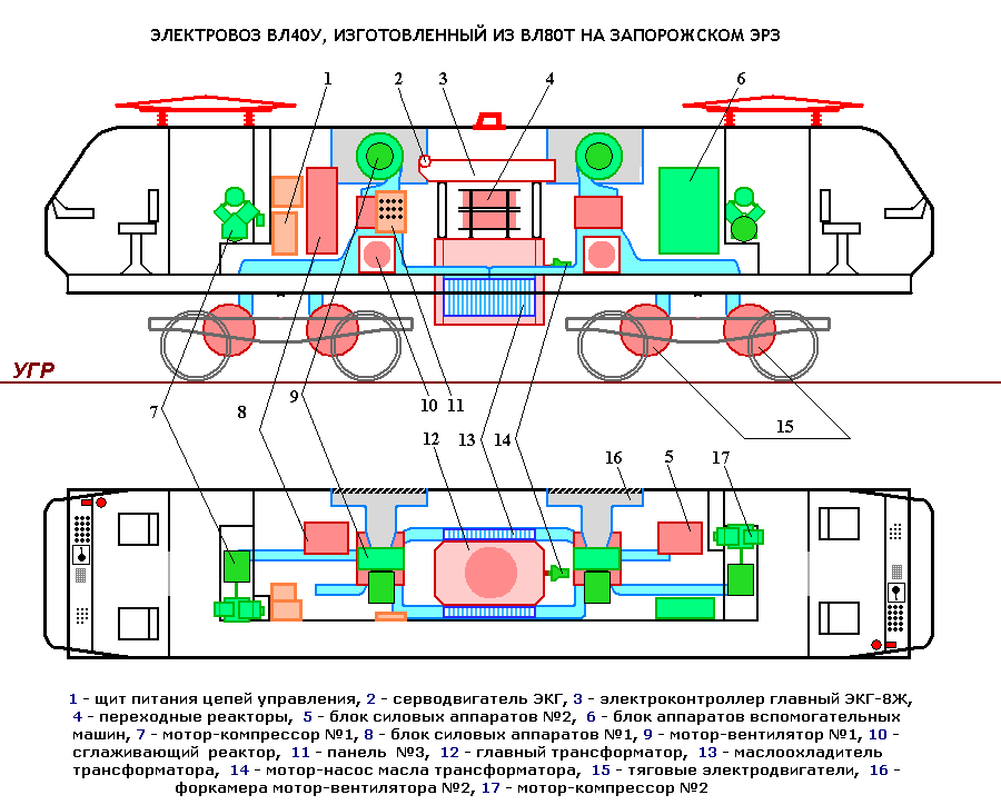 Plane of electric loco VL40U ZERZ